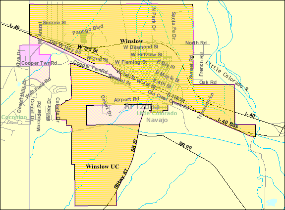 Winslow, Arizona